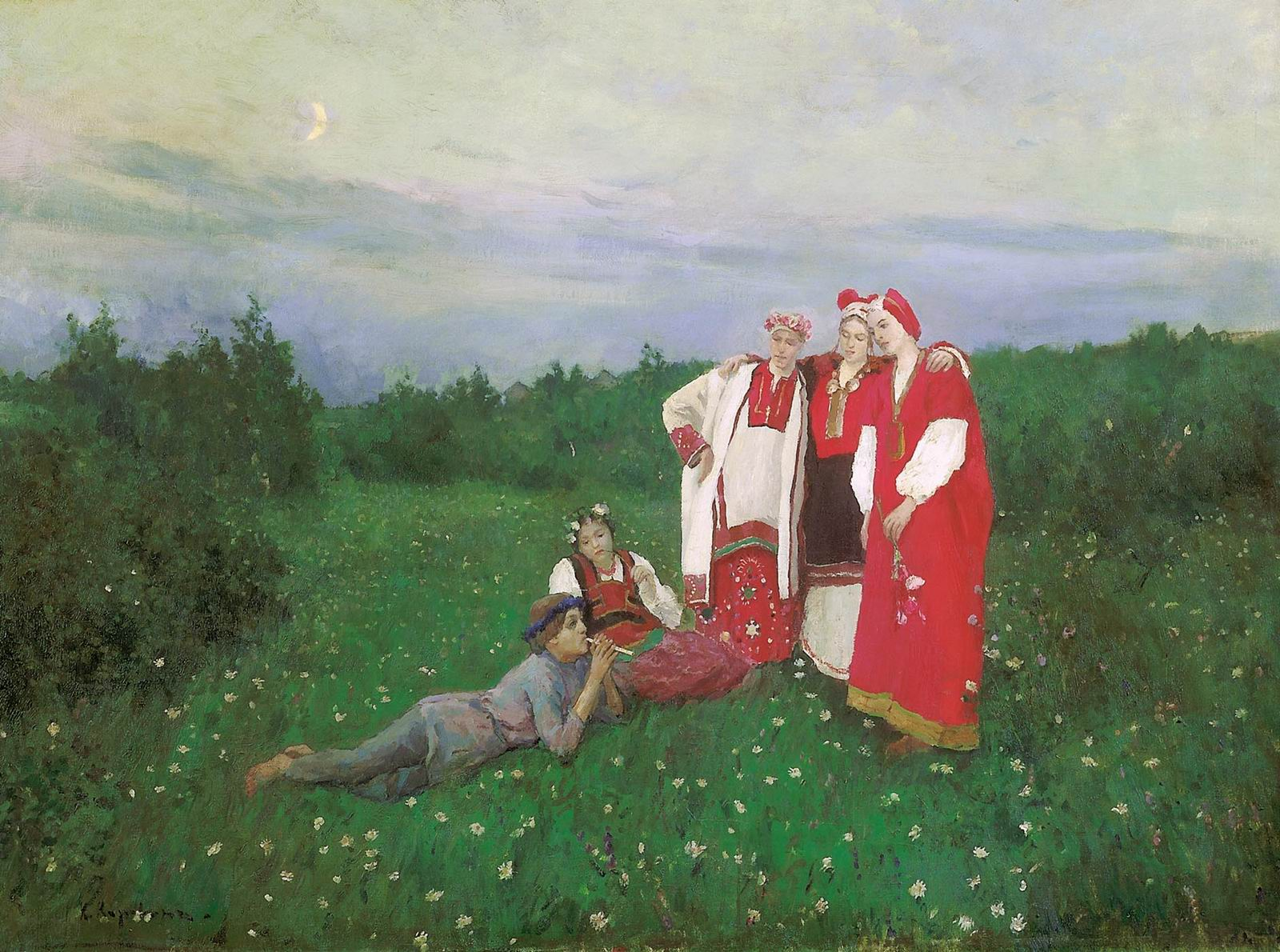 Nothern Idyll. 1886. Oil on canvas. The Tretyakov Gallery, Moscow, Russia.